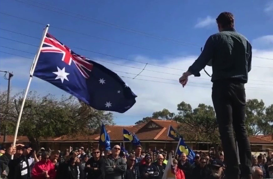 Andrew Hastie addresses striking Alcoa Workers from the tray of a ute, outside electoral office Friday September 7 2018 shot by DB